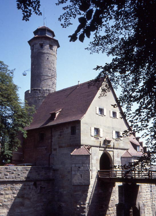 Altenburg castle of Bamberg in Germany